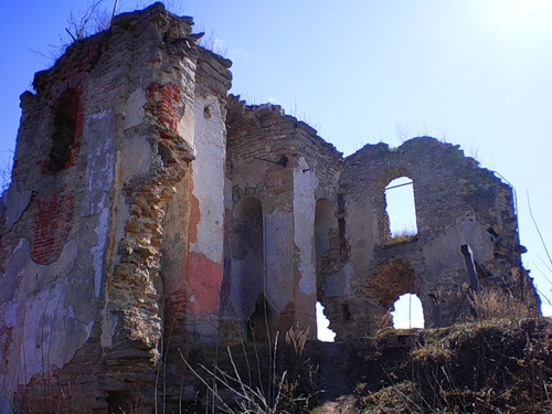 Ruins of the cathedral of the Ceremenec monastery